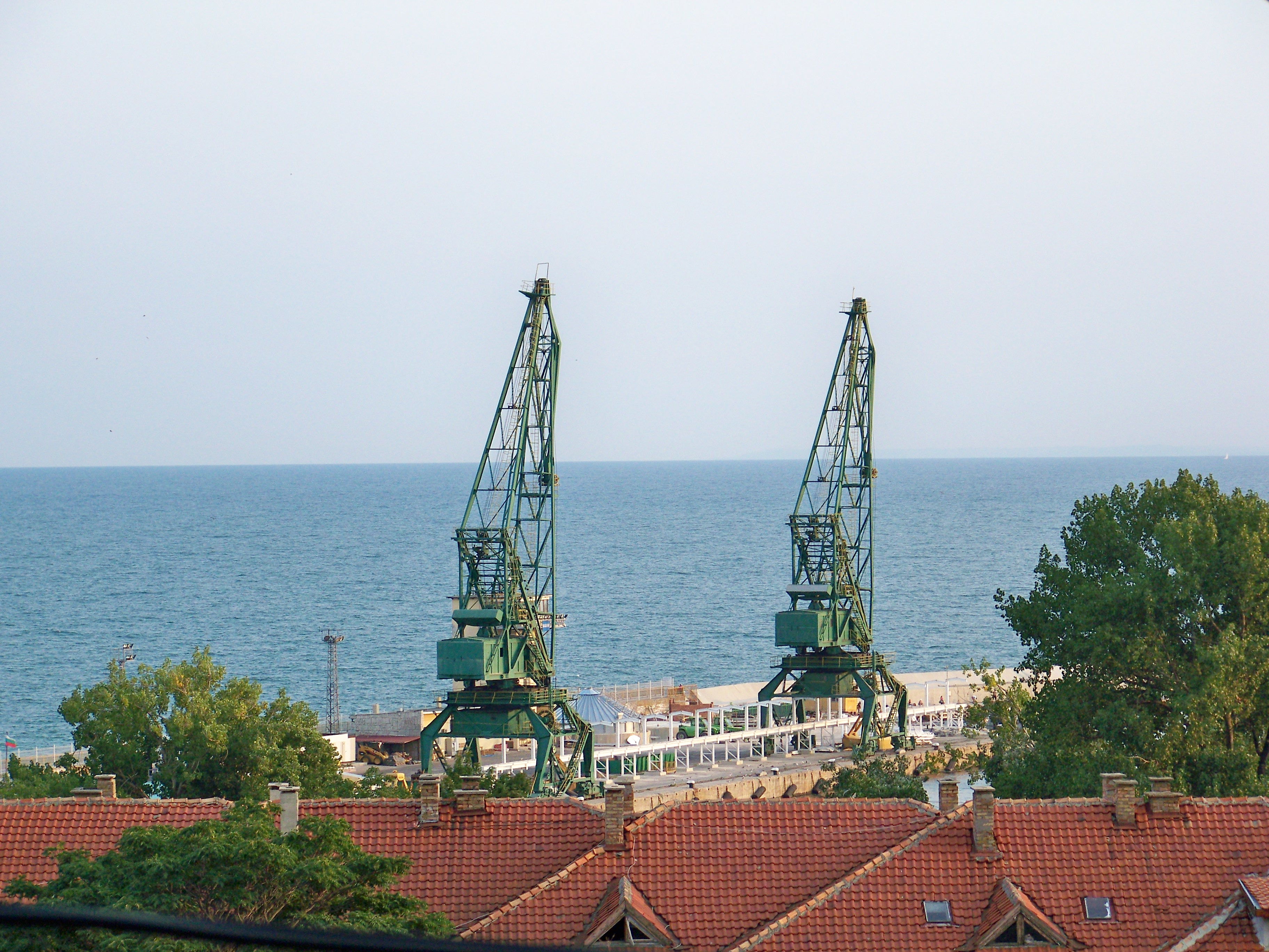 is a Black Sea coastal town and seaside resort in the Southern Dobruja area of northeastern Bulgaria.